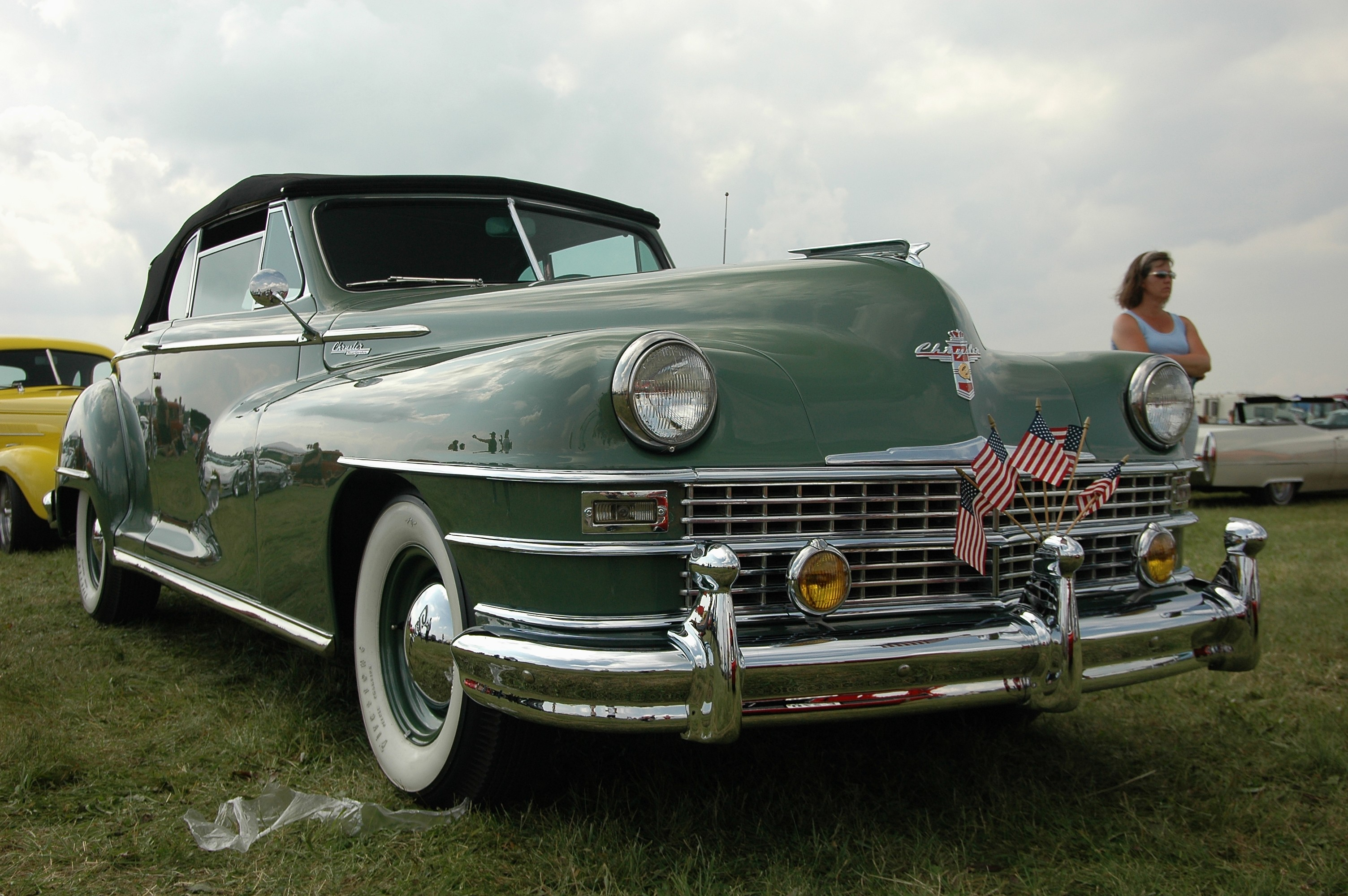 USA vehicle